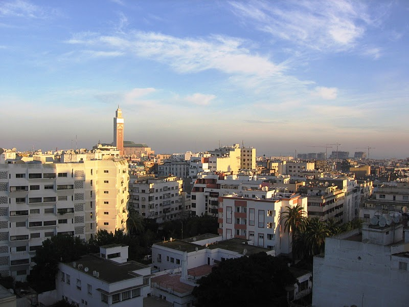 Overview of Casablanca, with the Casablanca Marina under construction in the right.